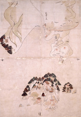 Illustrated map of Sugaura and Ōura Shimo manors (菅浦与大浦下庄堺絵図 sugaura to ōura shimo no shō sakai ezu)[: Shōen map with the boundaries of Sugaura and Ōura-shimo manors whose boundaries were contested at the time, but more prominently Chikubu Island in Lake Biwa with a temple-shrine complex (Jingū-ji).